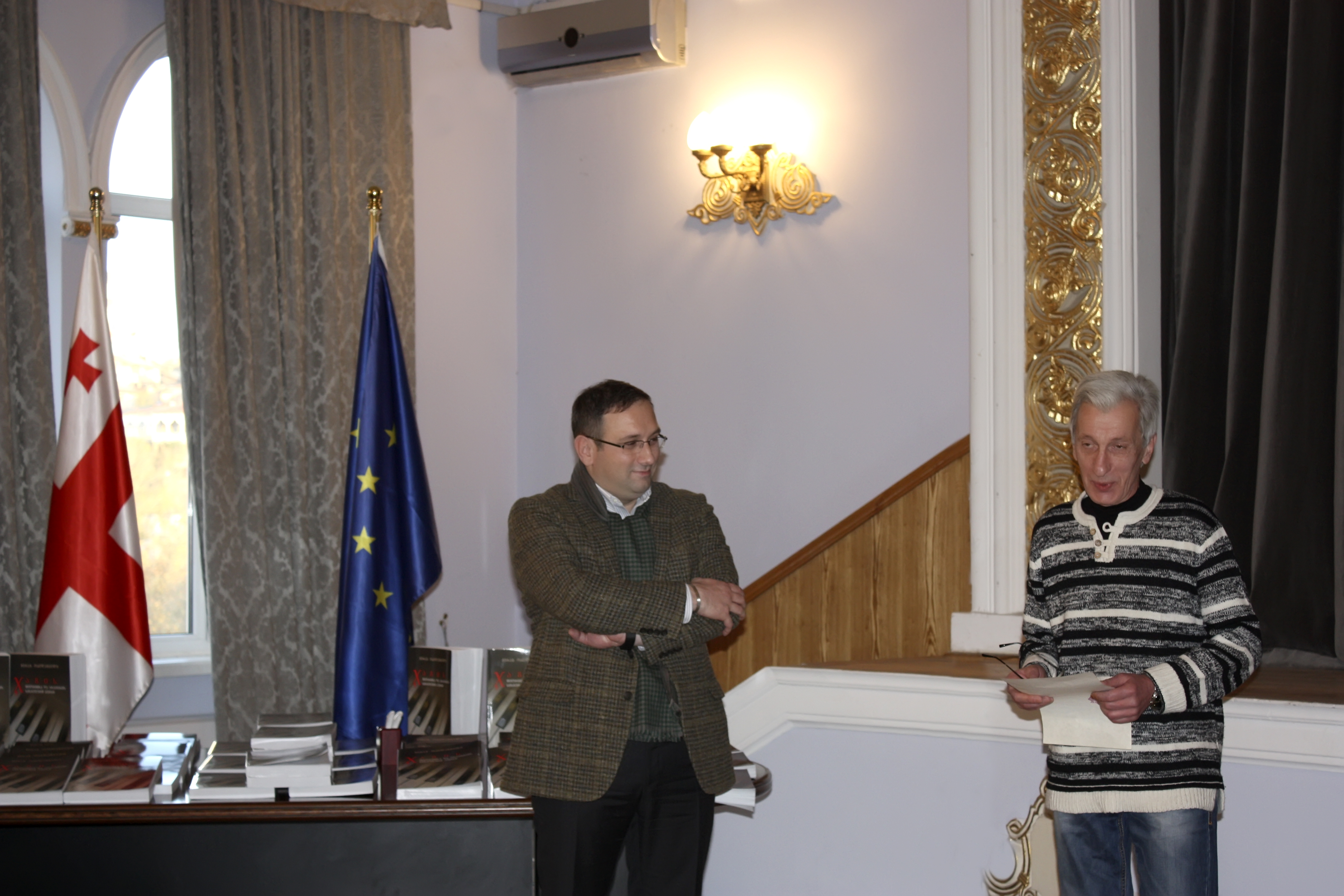 Presentation of the book "Jazz Theory and Practice course". Merab Odzelashvili (მერაბ ოძელაშვილი) and Minister of culture Nika Rurua.